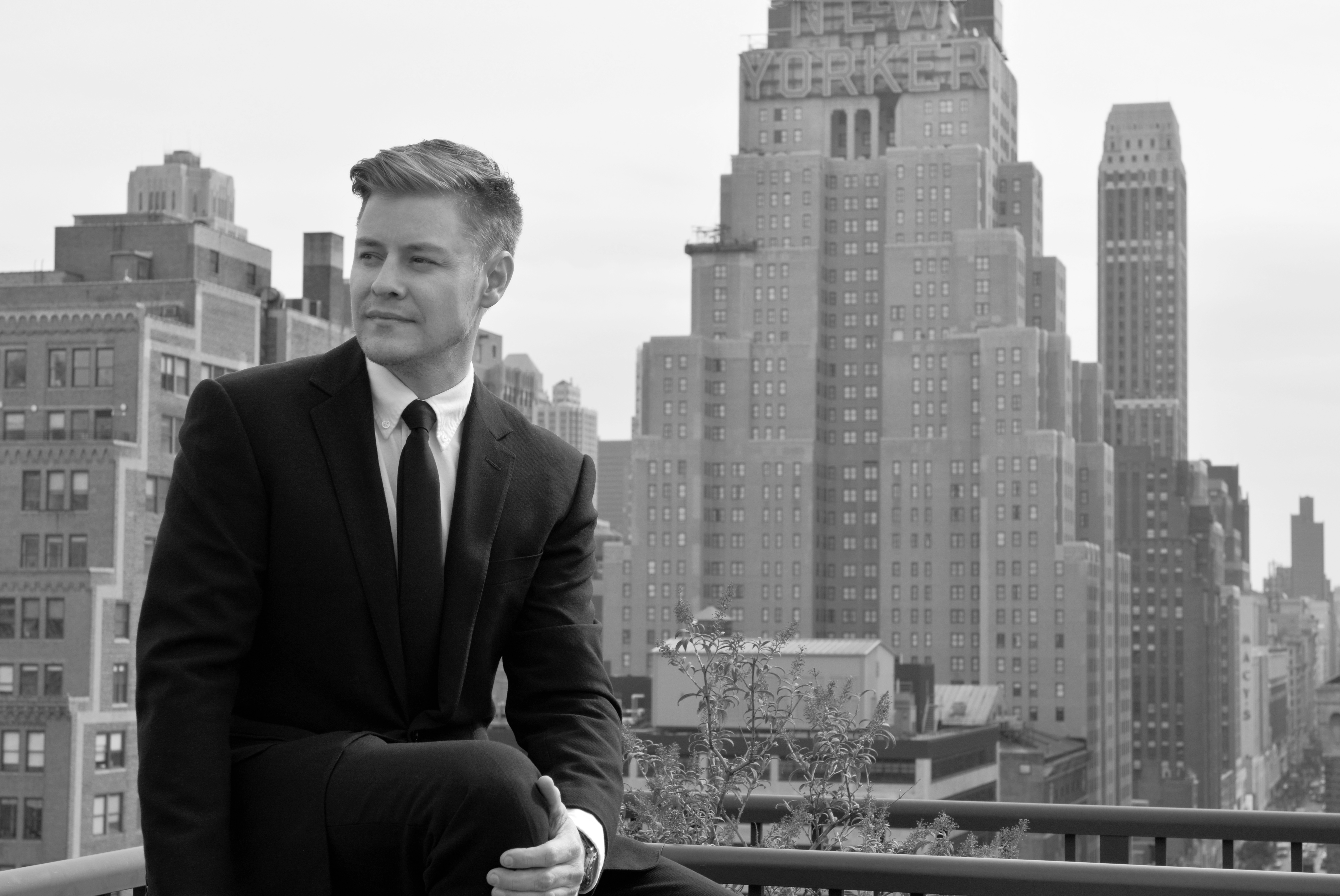 Kipton Cronkite, New York, NY, 2015